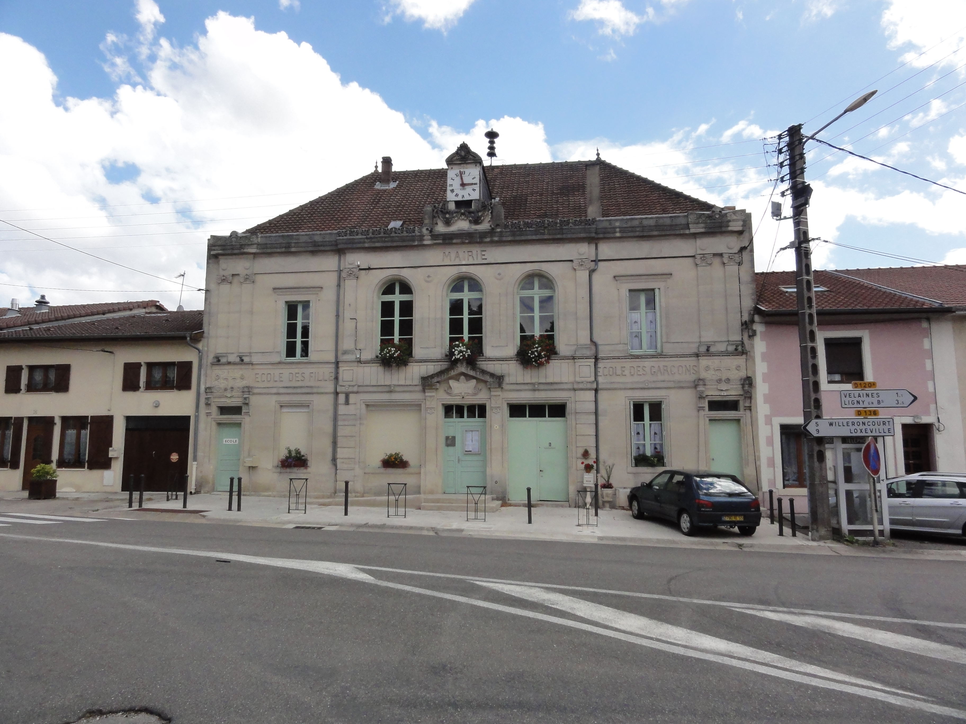 Nançois-sur-Ornain (Meuse) mairie